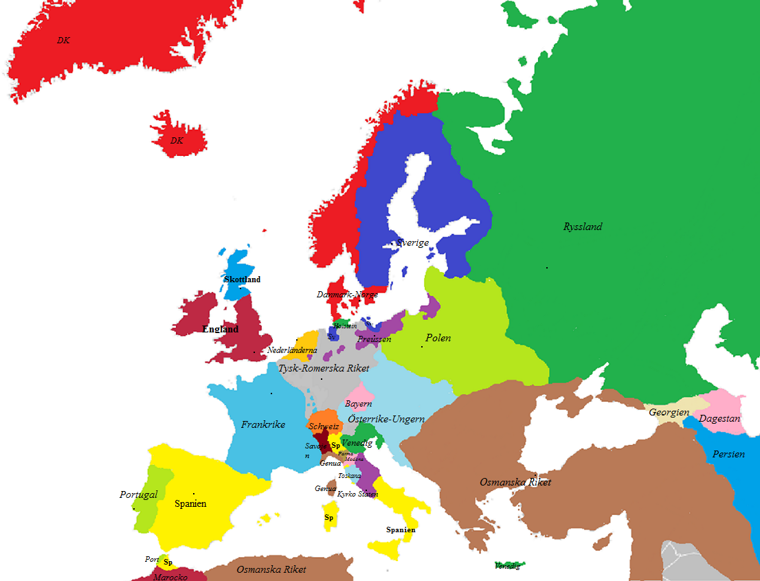 Europe 1648 after the Peace of Westphalia